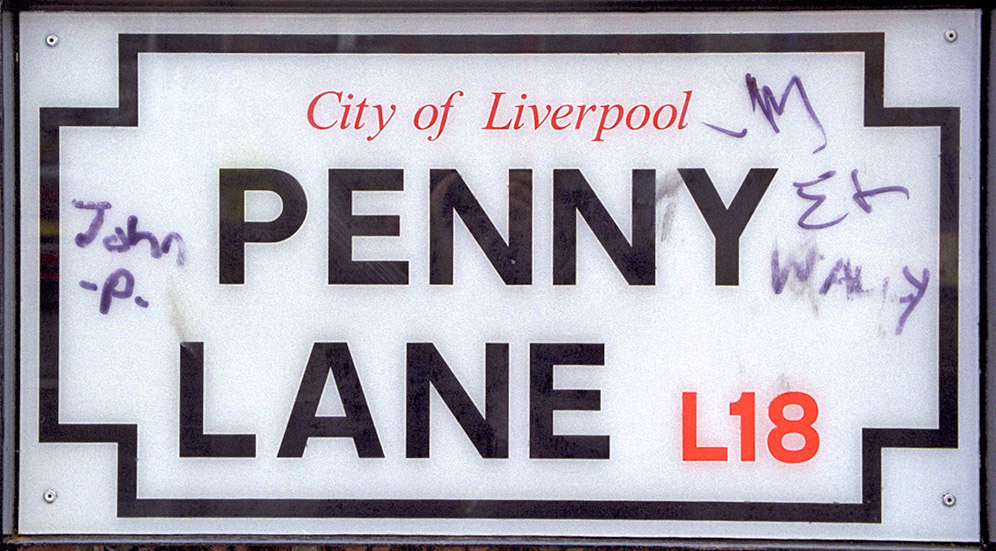 A Penny Lane street sign